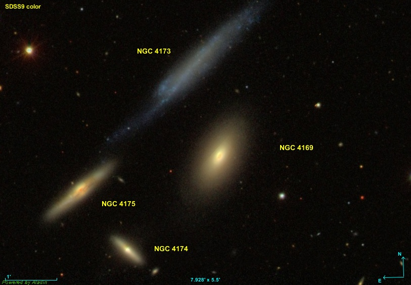 Image created using the Aladin Sky Atlas software from the Strasbourg Astronomical Data Center and SDSS (Sloan Digital Sky Survey) public data.